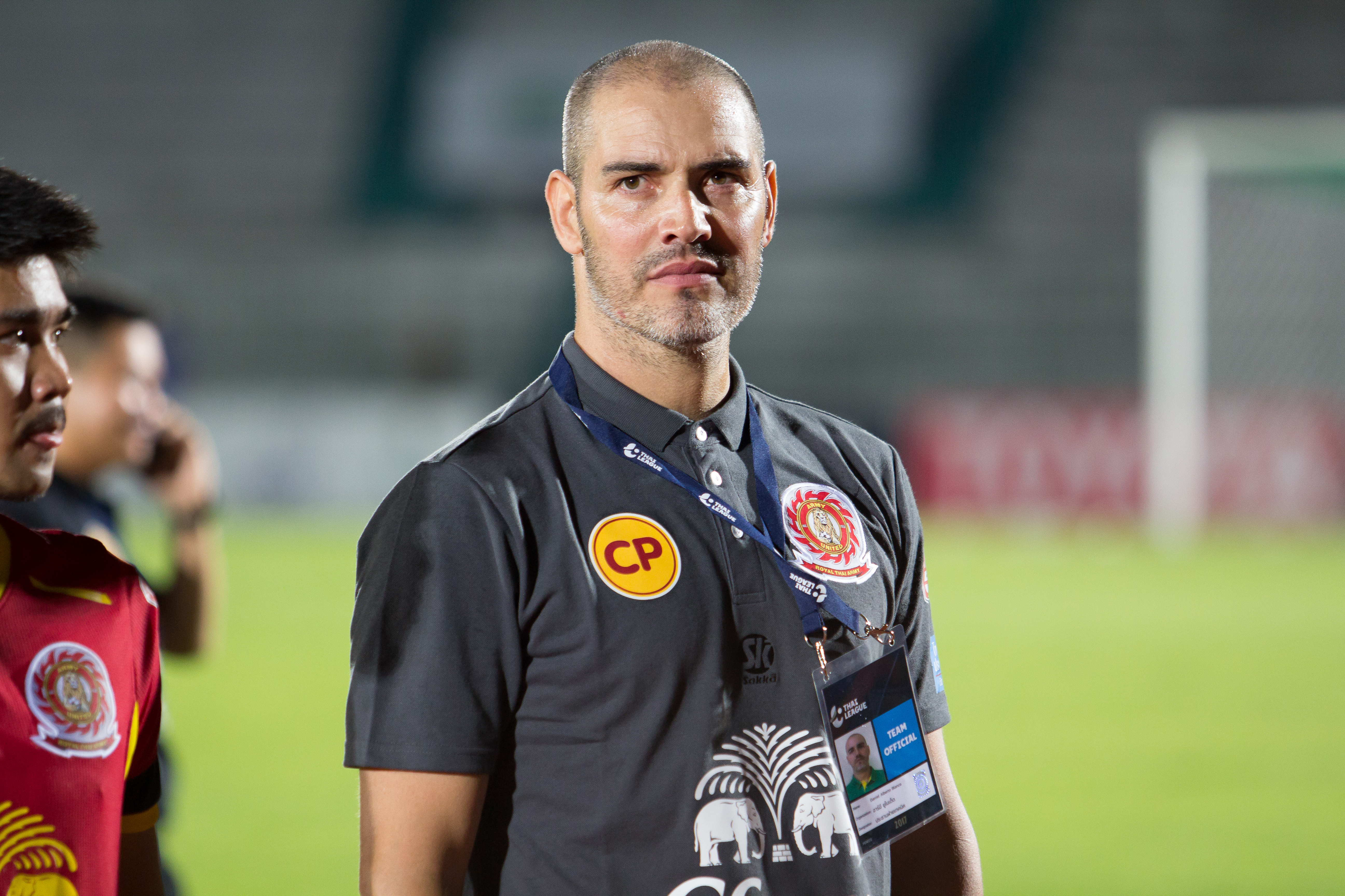 Daniel Blanco coaching for Army United.